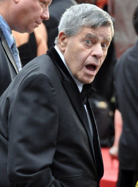 Jerry Lewis at the 2009 Cannes Film Festival